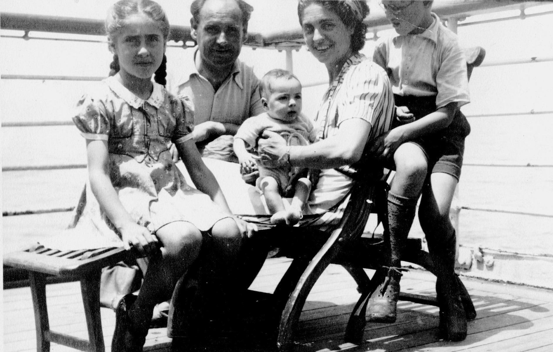 Perelló family on board at Nyassa ship